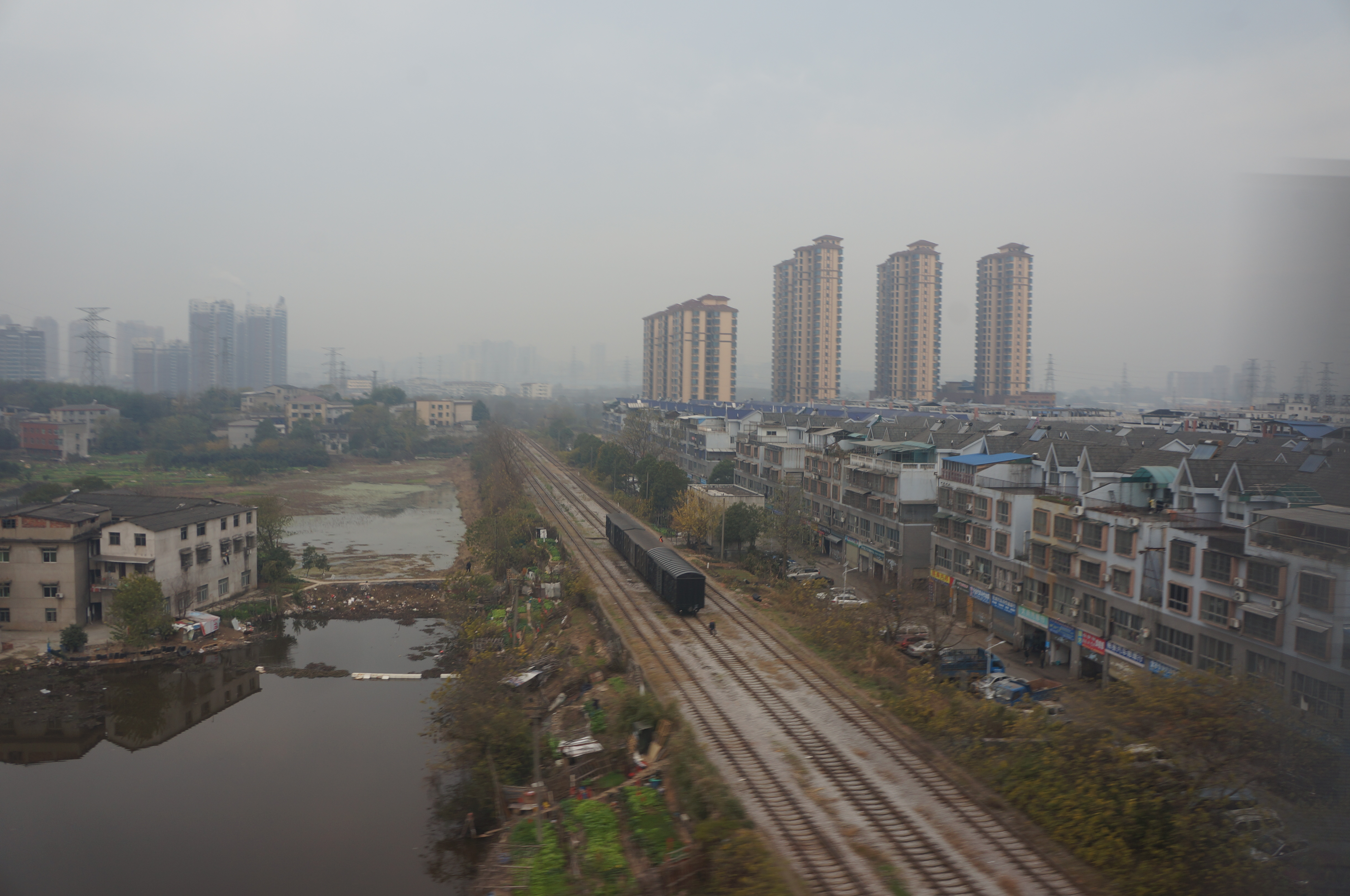 201712 430 Line of Zhuzhoubei Station